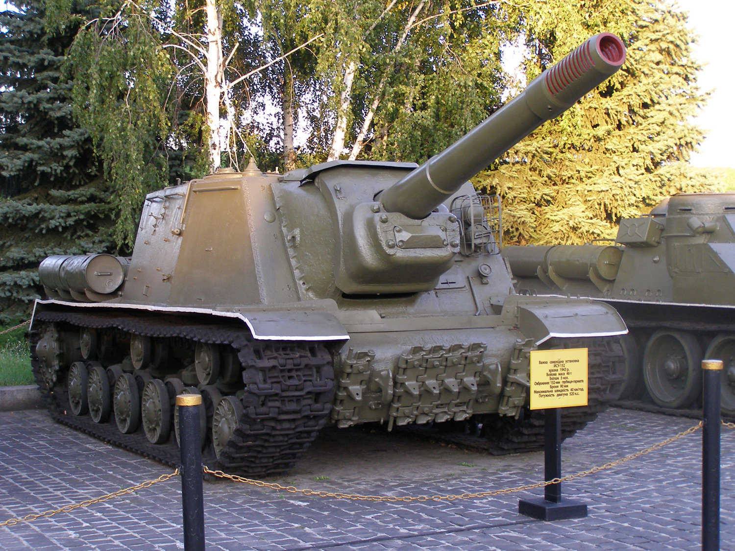 ISU-152 self-propelled gun, on display at the Museum of the Great Patriotic War, Kiev.